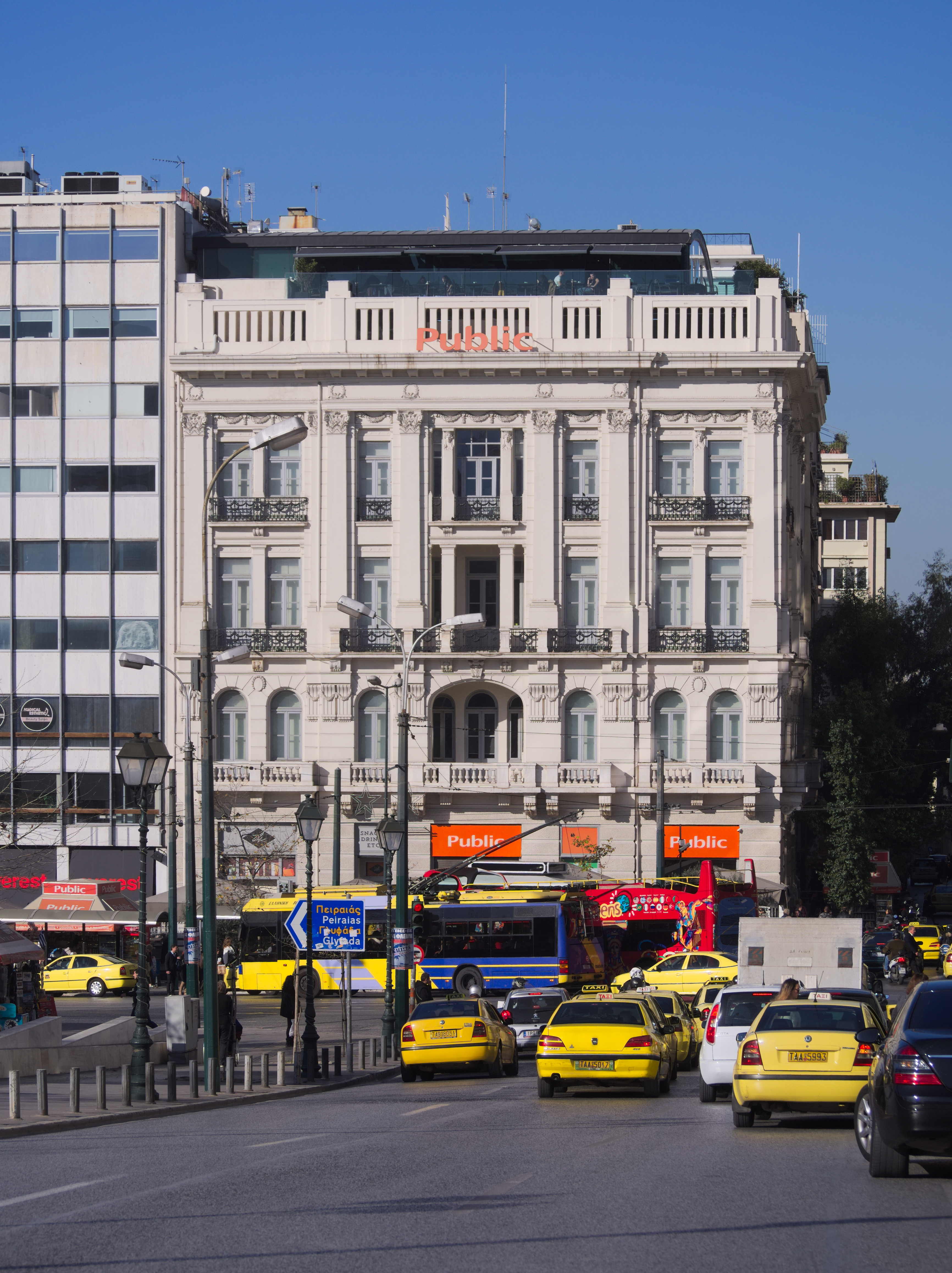 Pallis mansion, at Syntagma. Built in 1910-11, in the design of Anastasios Metaxas (1863-1937).